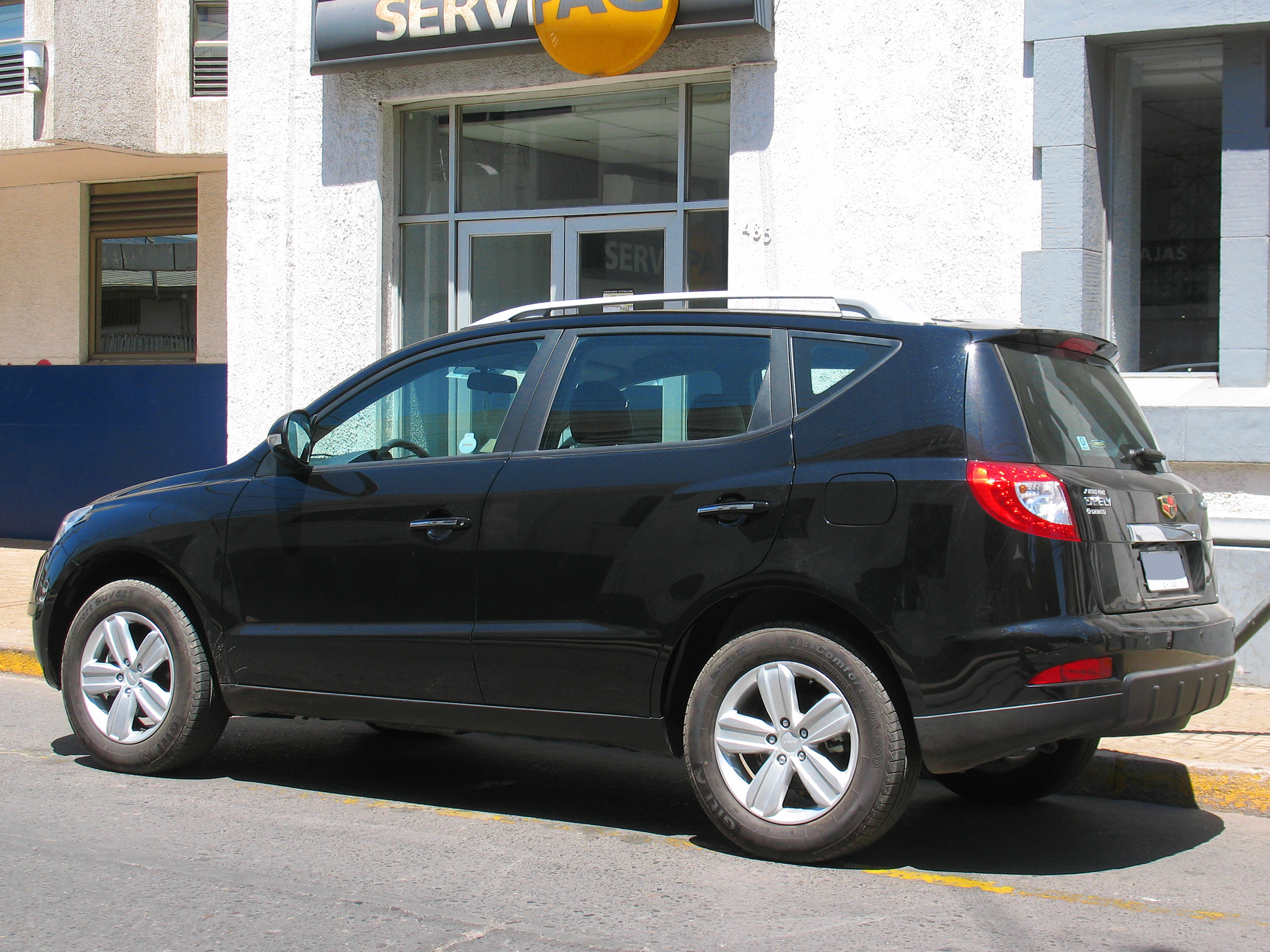 Emgrand EX7 2.0 GL 2014